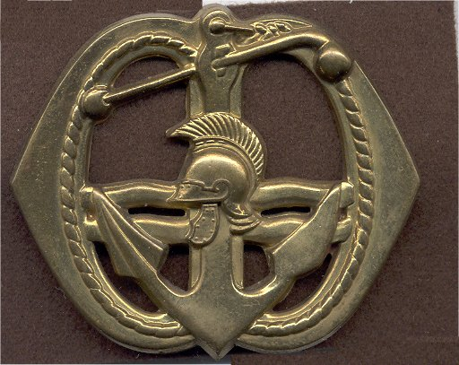 Baret Badge Pontonniers 1st model